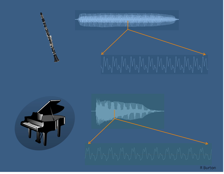 This image shows the differences in timbre between the clarinet and the piano